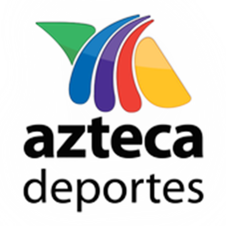 Logo used for the TV Azteca sports division "Azteca Deportes"